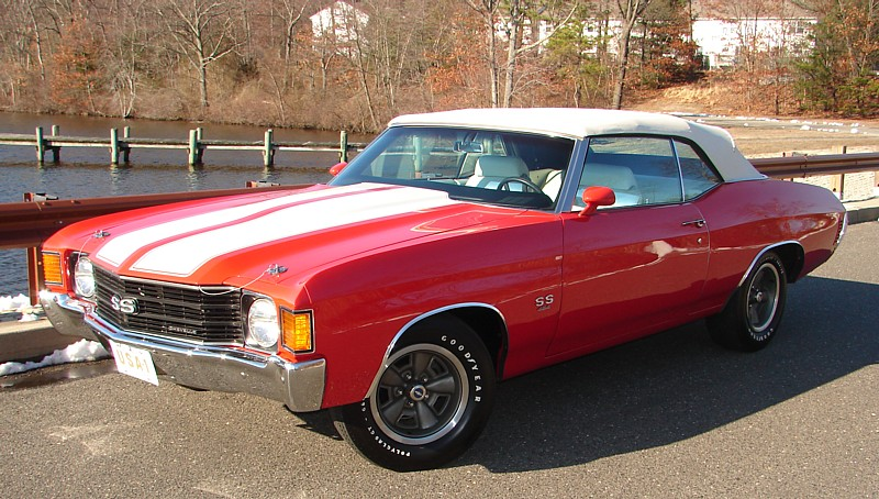 72 Chevelle SS Convertible